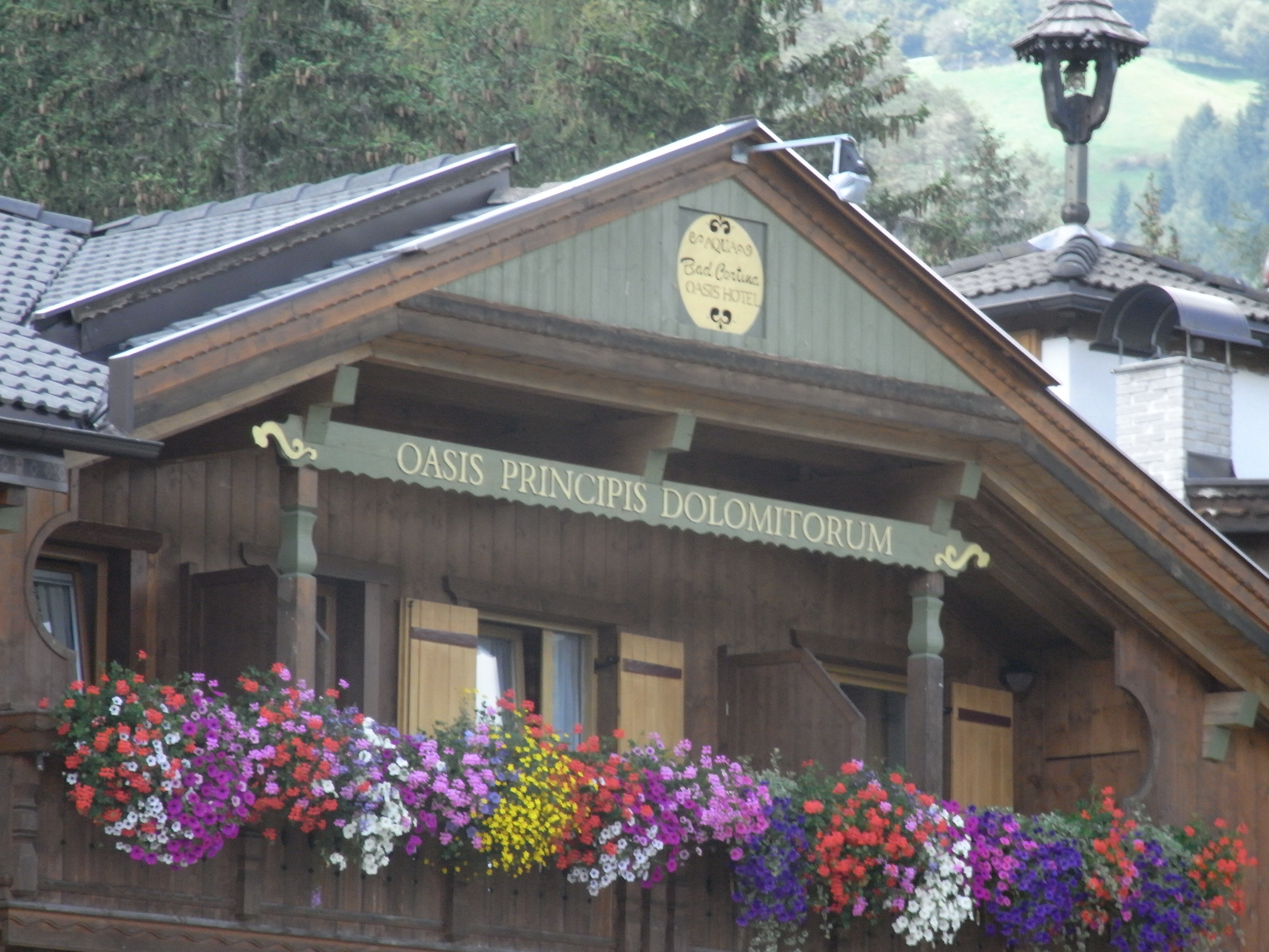 Hotel in Enneberg/Marebo "Oasis principis Dolomitorum" - Oasis of the princess of the Dolomites